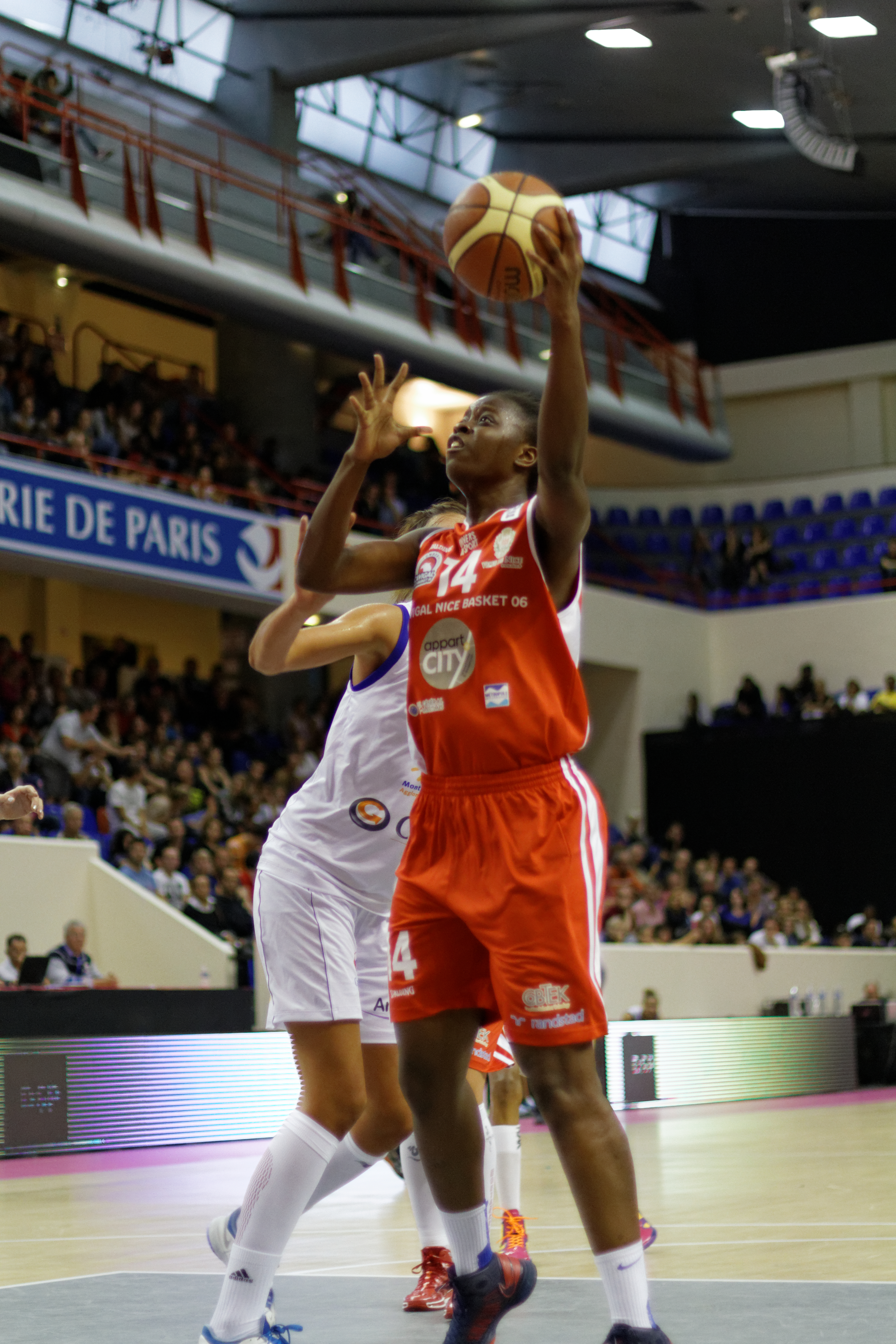 Open LFB, Lattes Montpellier-Nice, October 6th, 2013.